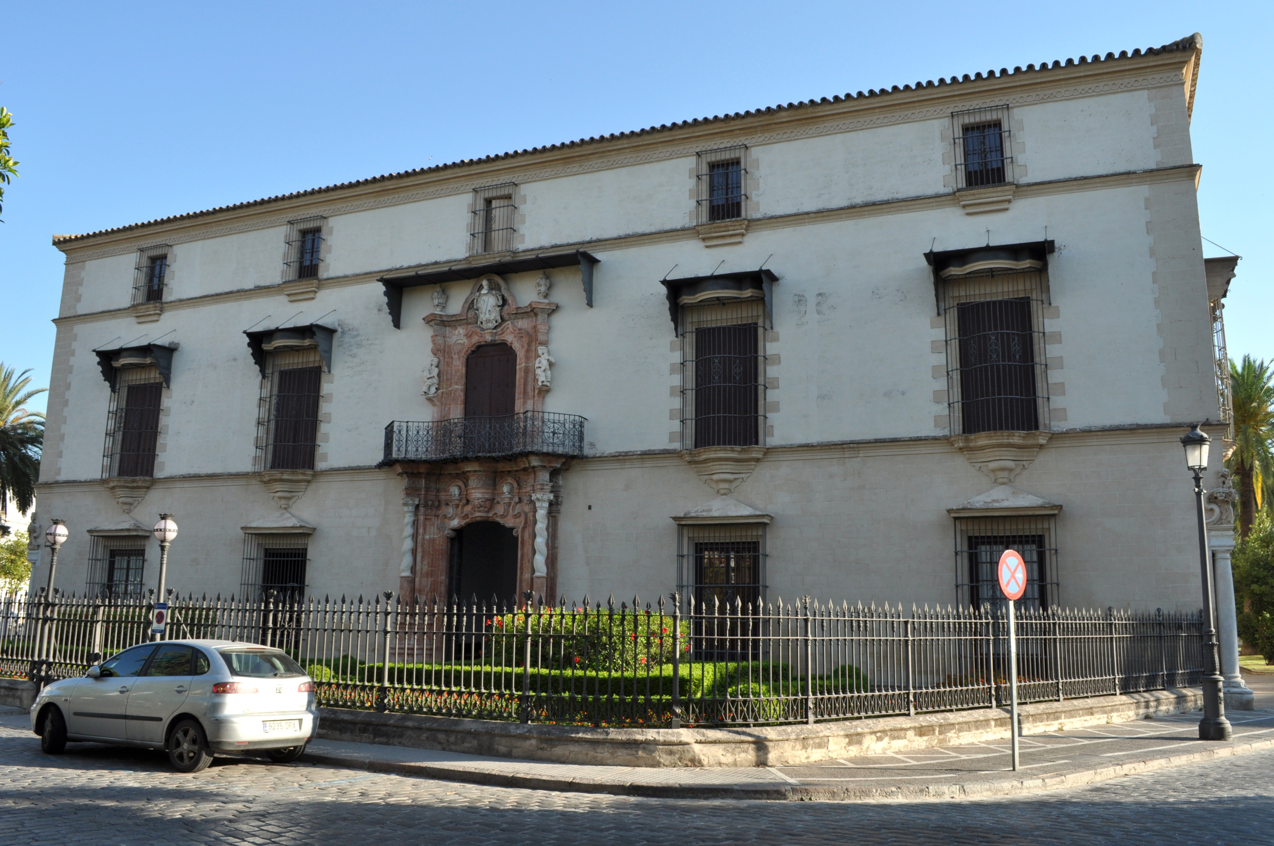 Domecq Palace Façade, Jerez de la Frontera